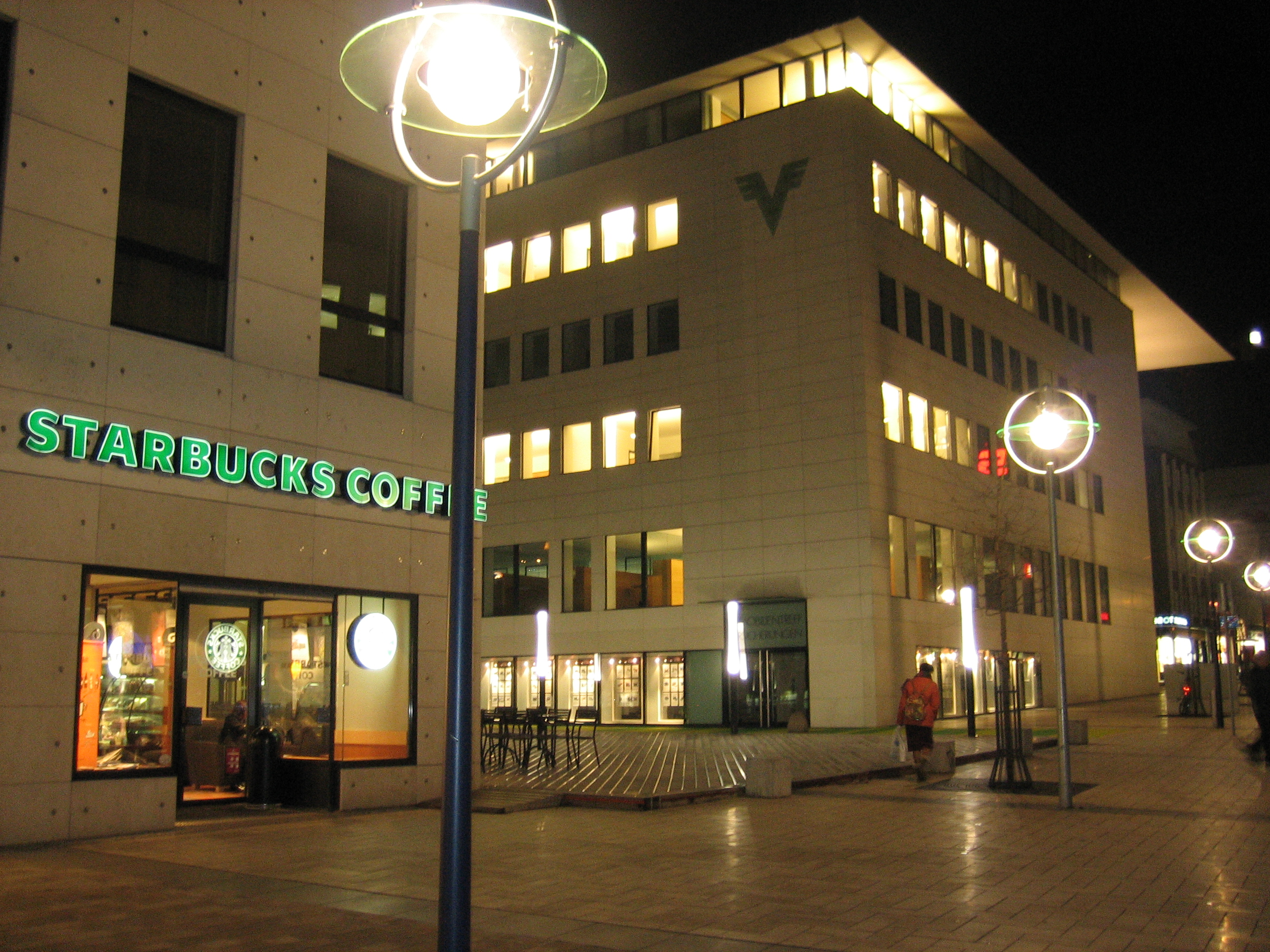 Starbucks Coffee, Dortmund, Germany.